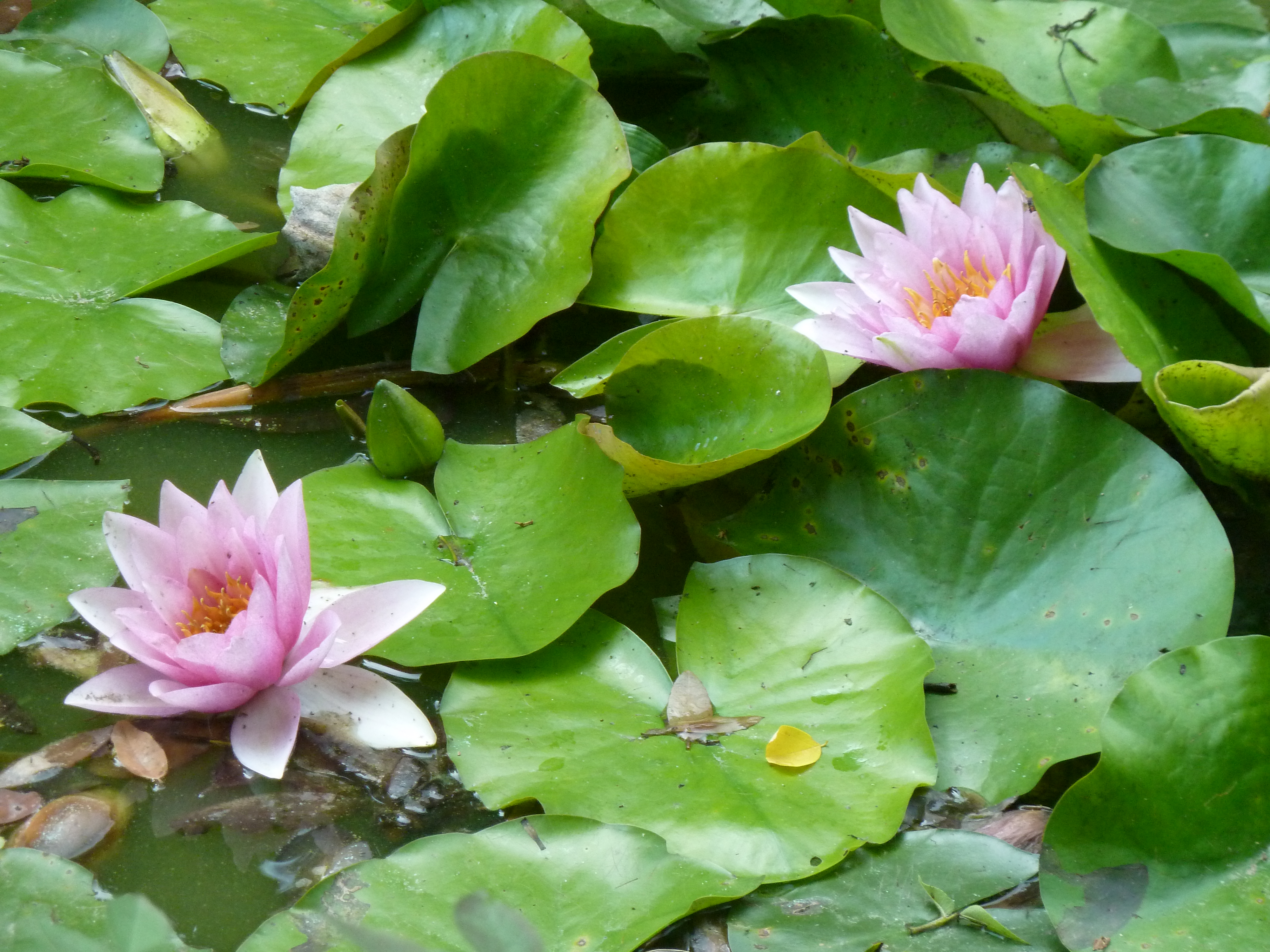 Orto botanico di Pisa